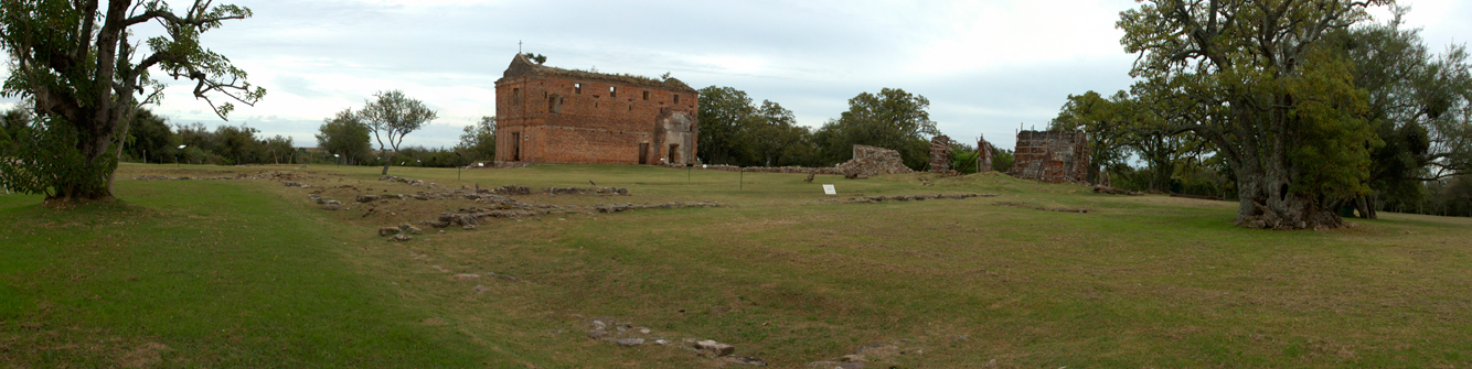 Calera de las Huérfanas. Colonia. Uruguay